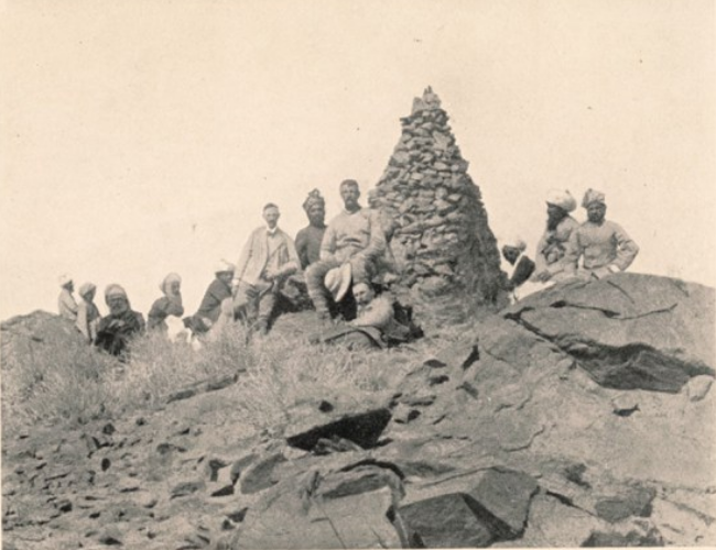 BOUNDARY PILLAR 186, KUH-I-MALIK-SIAH, 1896. Major Mcmahon; Mr. G. P. Tate; Major Mayrand, I.M.S.